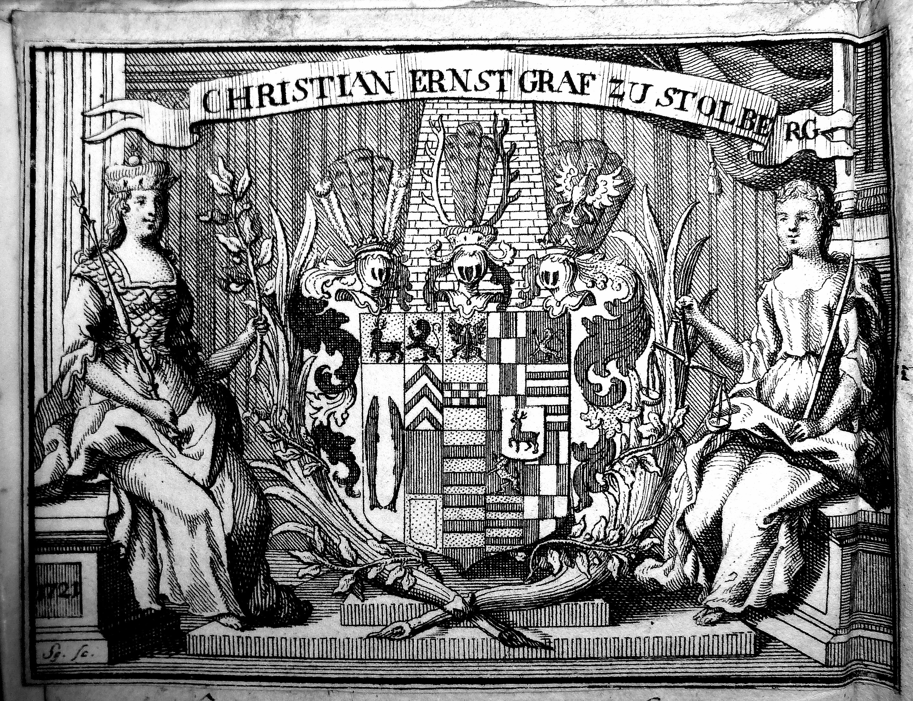 Illustrated armorial bookplate of Christian Ernst, Graf zu Stolberg-Wernigerode ; Penn Libraries call number: GC5 N1593 538t All images from this book on flickr